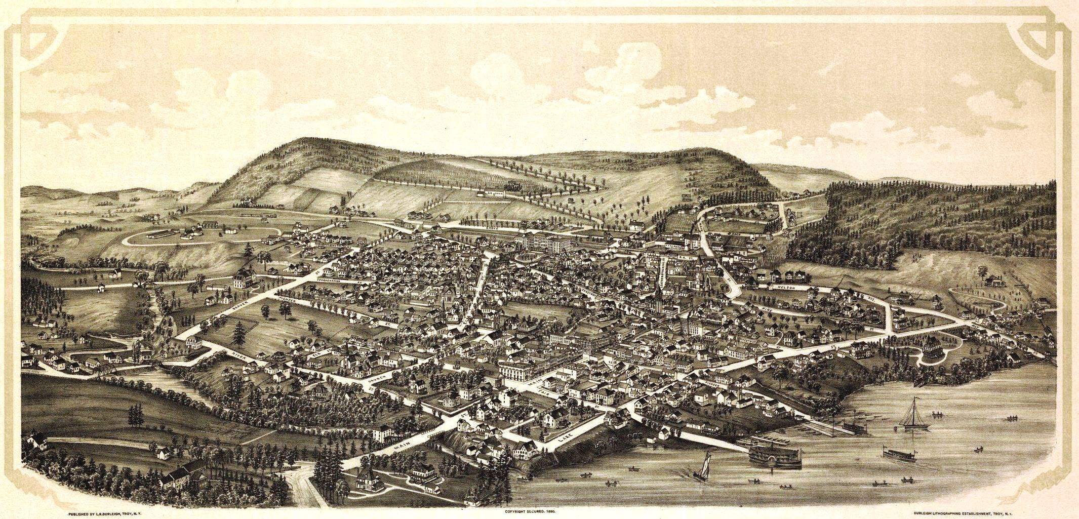 Handdrawn map of Cooperstown, New York, by L. R. Burleigh, published 1890